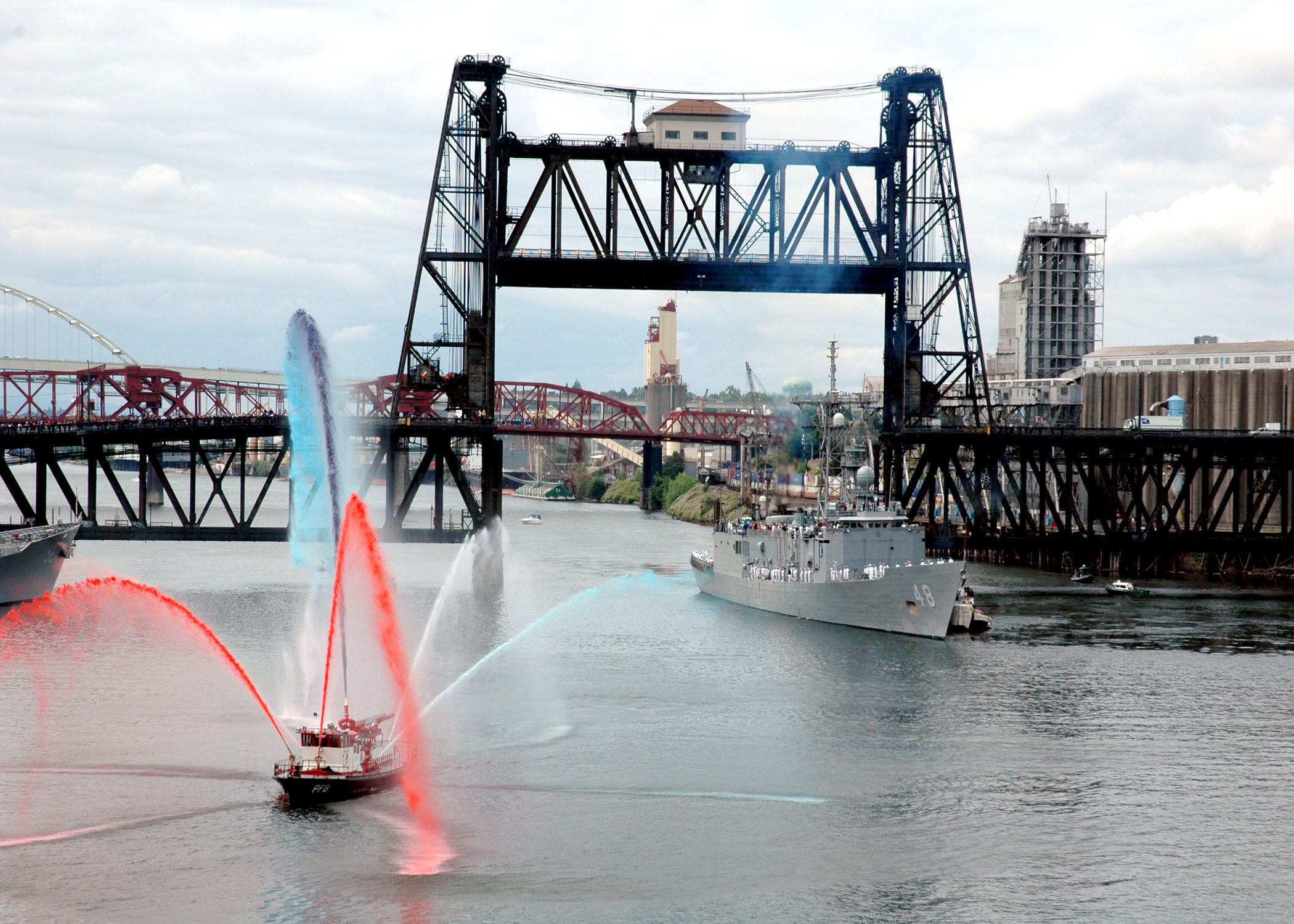 PORTLAND, Ore. (June 7, 2007) - A Portland fireboat greets the guided-missile frigate USS Vandegrift (FFG 48) with red white and blue water streams as she passes under the Willamette River's Steel Bridge. Vandegrift is one of four U.S. Navy ships visiting Portland for the weeklong 100th Annual Rose Festival celebration. U.S. Navy photo by Mass Communication Specialist First Class Thomas Brennan (RELEASED)